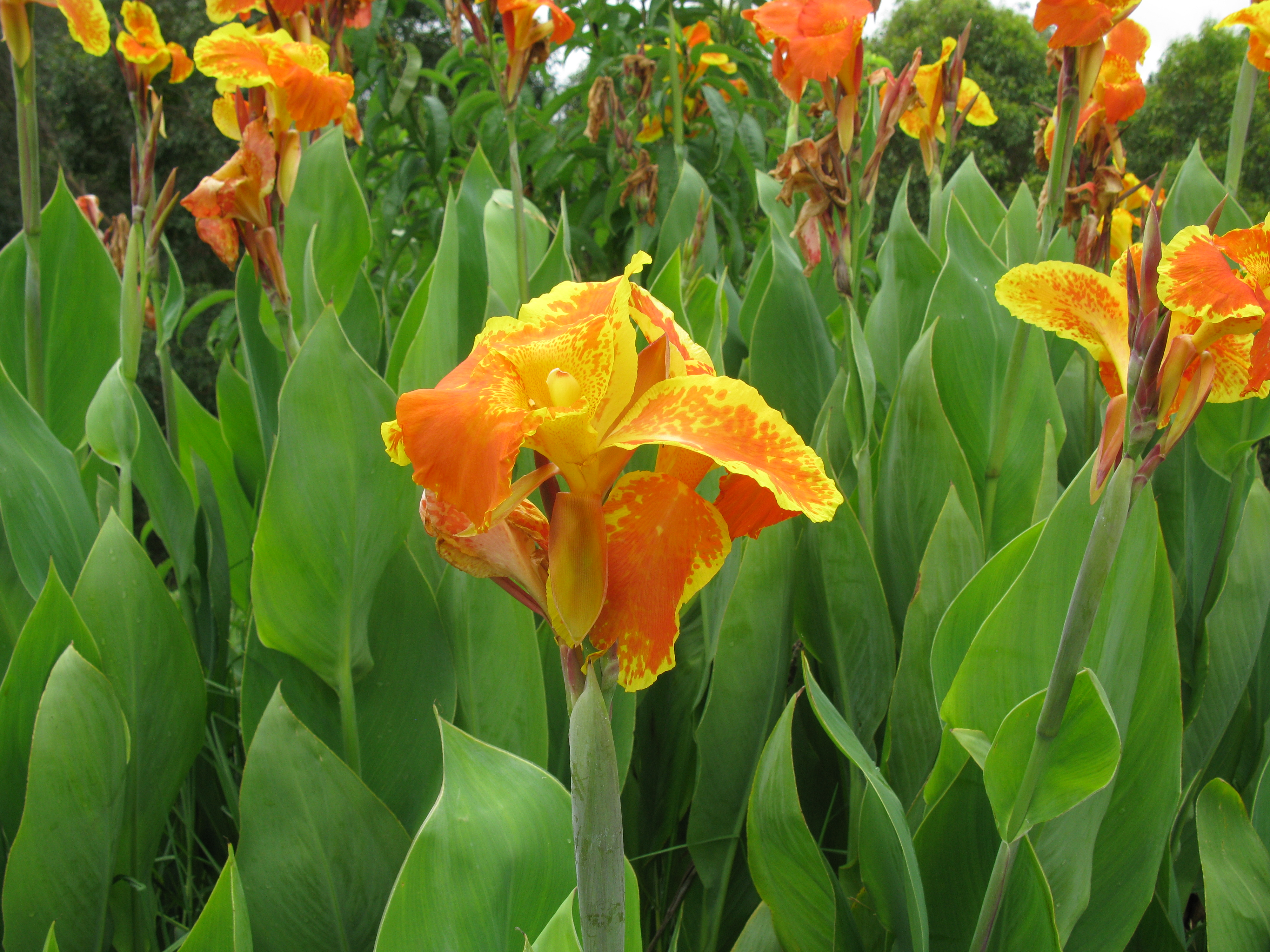 Introduced, cool season, perennial, erect, hairless, rhizomatous herb to 2 m tall. Leaves are elliptic, up to 45 cm long and 25 cm wide. Flowers occur either singly or in pairs. Corolla tubes are less than 15 mm long (often only 5 mm long) with lobes 4–5 cm long. Staminodes 4; outer staminodes 3, to 10 cm long and 5.5 cm wide, usually unequal, white to yellow to red to pink (sometimes with markings in other colours); inner staminode to 8 cm long and 3 cm wide. There is a single petaloid filament about 1.5 cm wide with an anther about 12 mm long. Flowering is from late winter to summer. A hybrid of uncertain origin; often cultivated as an ornamental. Naturalized in disturbed land and along creeks, mostly near habitation.